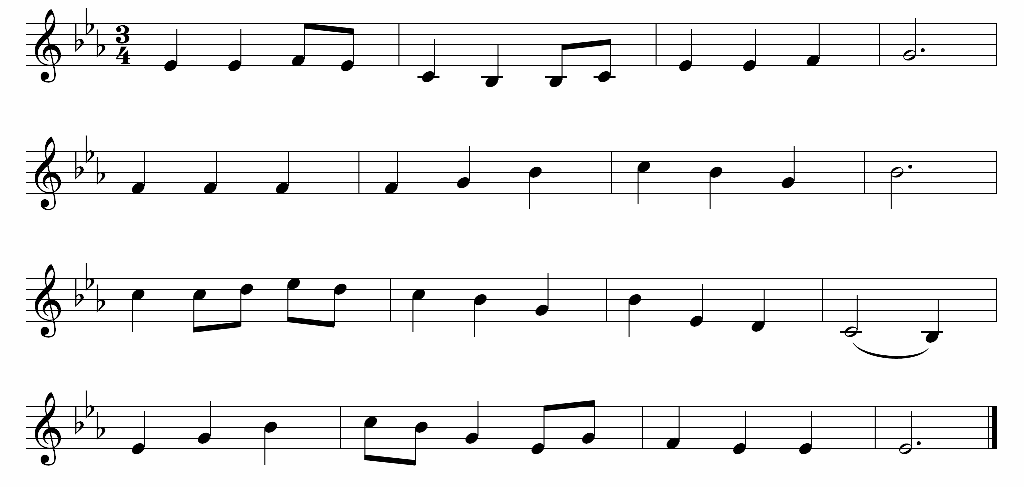 The Irish folk tune Slane, used for some settings of the hymn "Be Thou my Vision". This version is to the metre 10.10.10.10 with each lines beginning on first beat of the bar. Some versions of "Be Thou my Vision" are set to a slightly different setting of this melody in which the the 2nd, 3rd and 4th lines of each verse begin on an anacrusis, or upbeat (10.11.11.11).